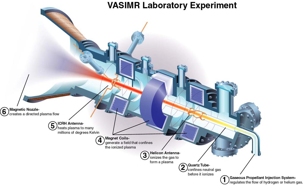 VASIMR (Variable specific impulse magnetoplasma rocket) cutaway